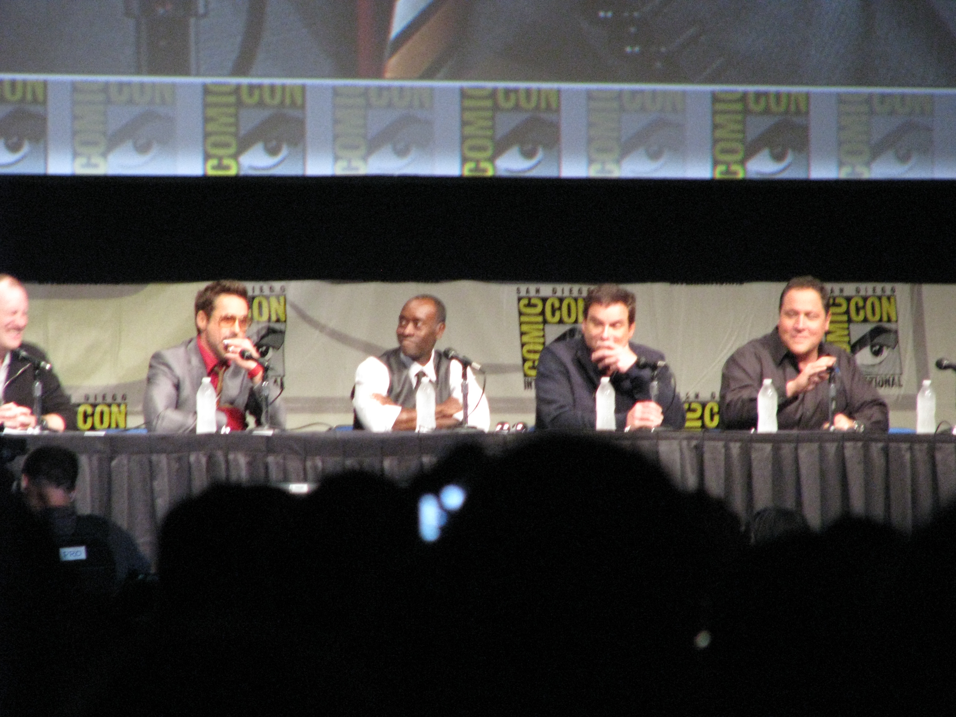 Kevin Feige, Robert Downey, Jr., Don Cheadle, Shane Black and Jon Favreau promoting the film Iron Man 3 at the 2012 San Diego Comic Con International.